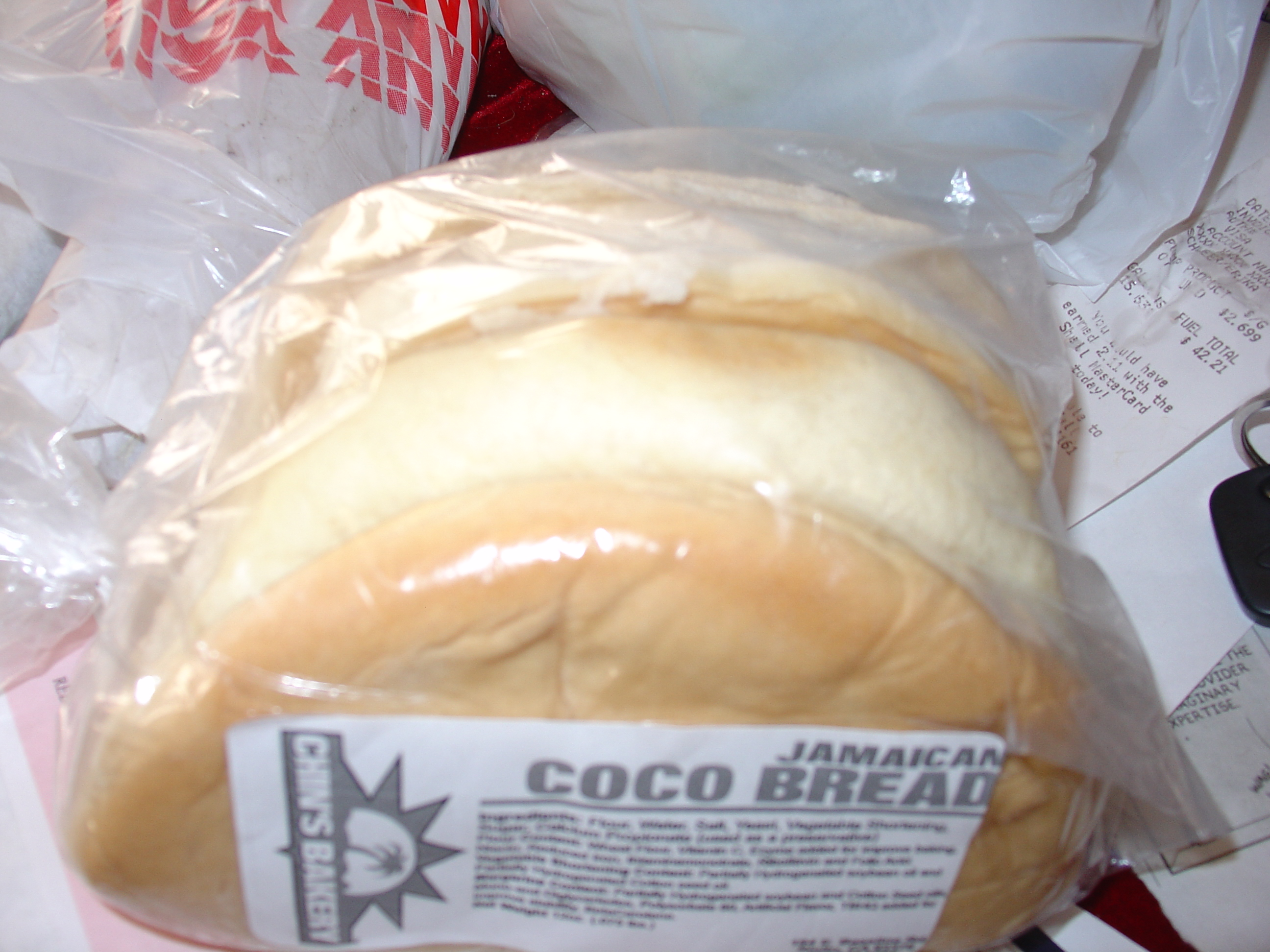 Jamaican coco bread from L.A. Bakery (2009).